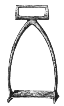 Stirrups of iron from Swedish Iron age, found in Uppland, Sweden